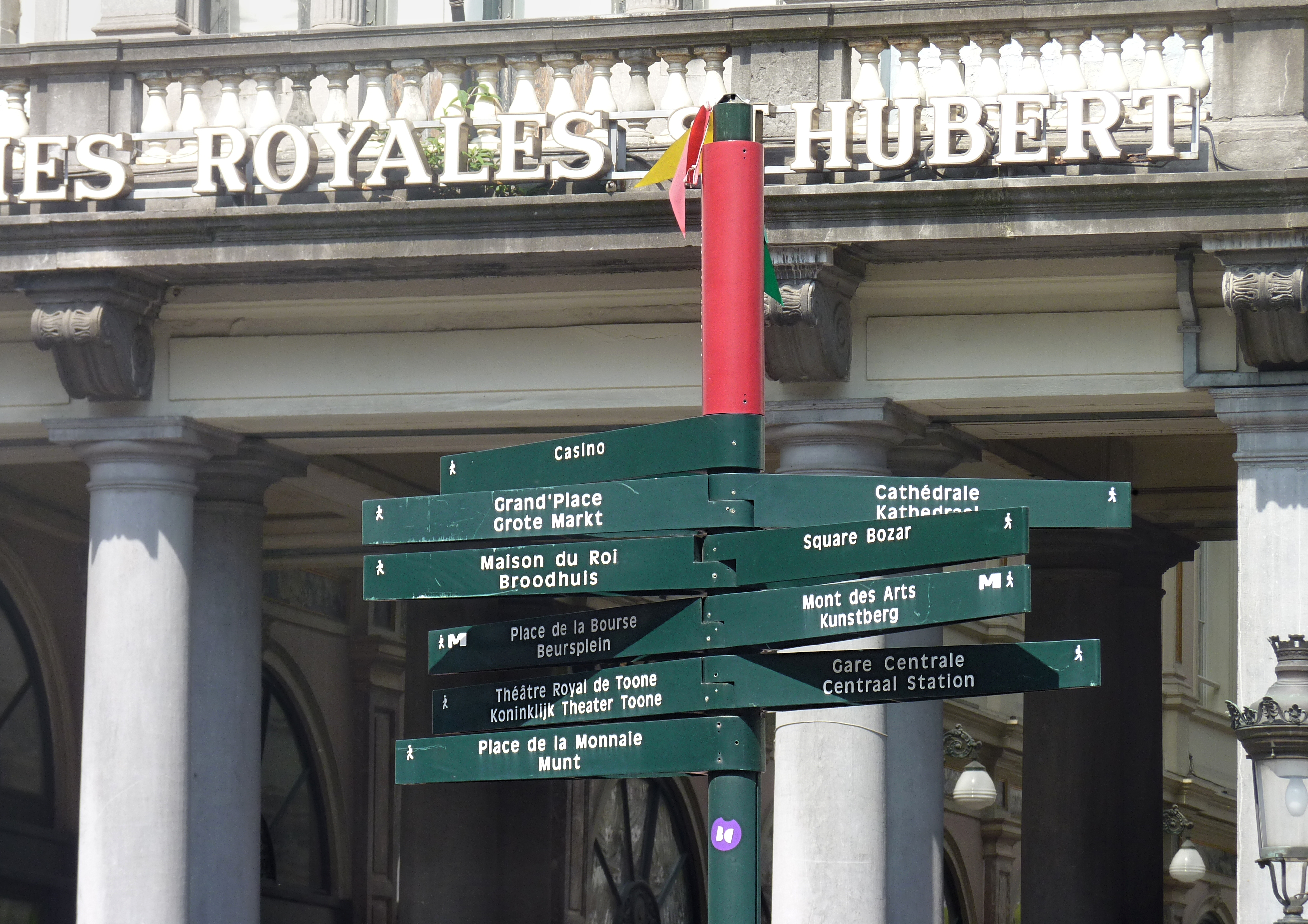 Signposts in front of the royal galleries Saint-Hubert in Brussels, Belgium.